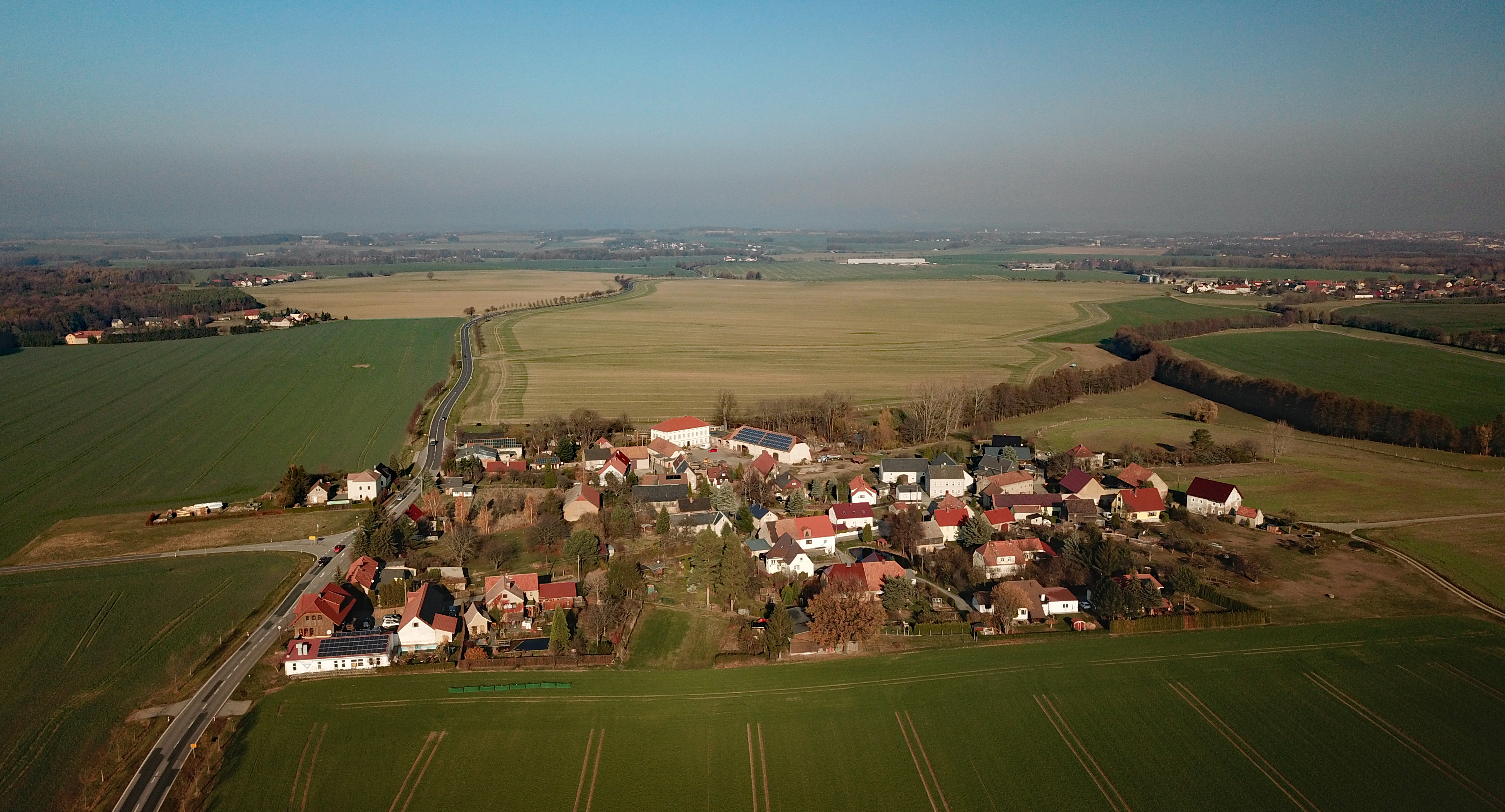 Weißnaußlitz (Doberschau-Gaußig, Saxony, Germany) Hornjoserbsce: Powětrowy wobraz Běłych Noslic